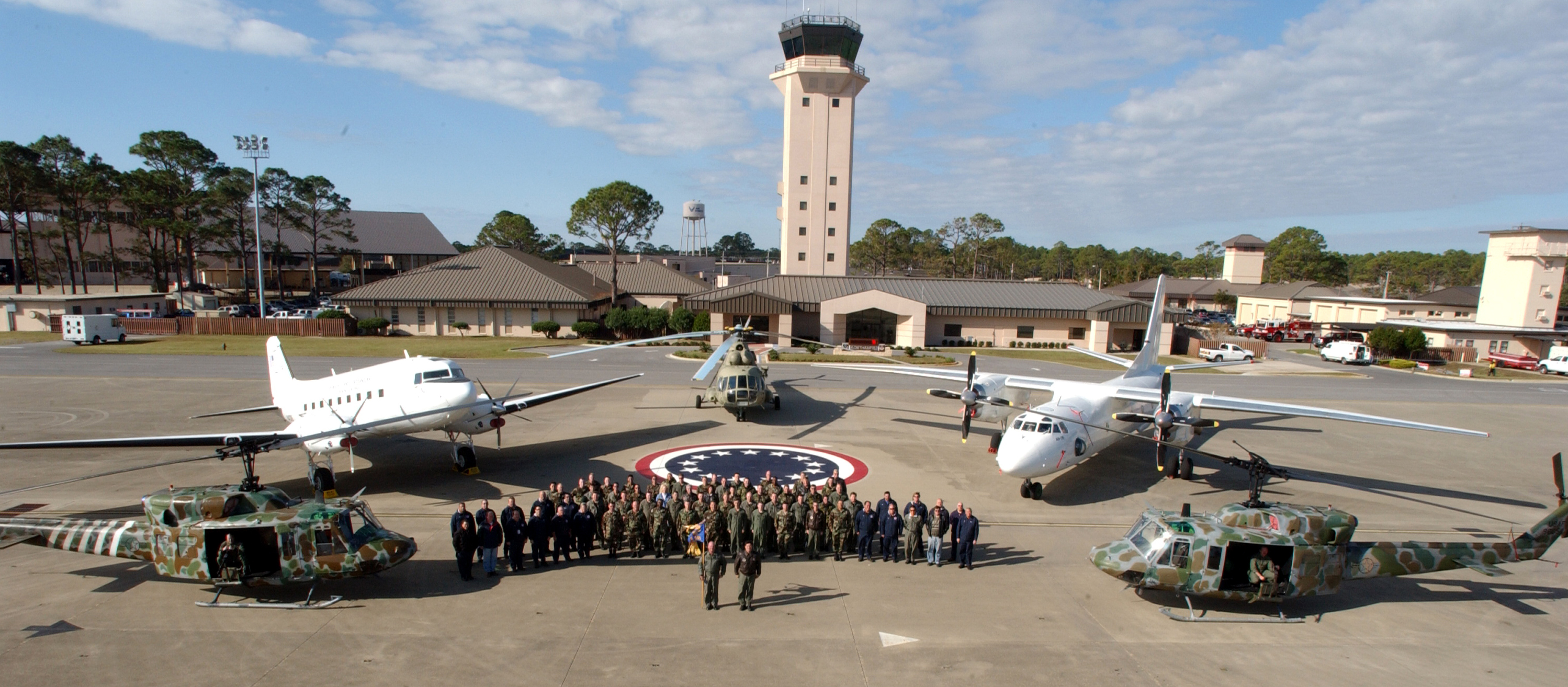 6th Special Operations Squadron and their aircraft. The two closest are UH-1Ns; the white aircraft on the left is a C-47T Turboprop conversion (the USAF is still flying the C-47); the white plane on the right is an Antonov An-26 (a Ukrainian turboprop transport aircraft), and the helicopter in the back is a Mi-8 (a Russian helicopter).